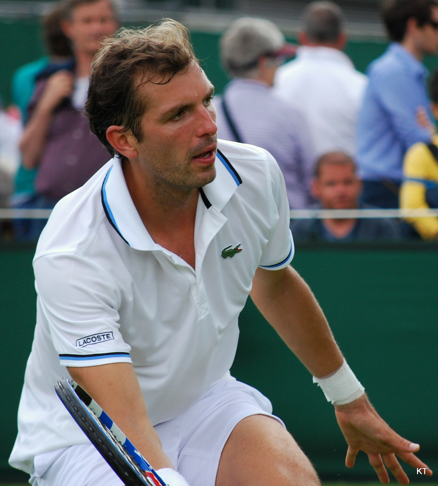 Julien Benneteau during his first round match with Ruben Bemelmans. Benneteau won 6-4, 6-2, 3-6, 4-6, 6-1. Day 1 of Wimbledon 2011.